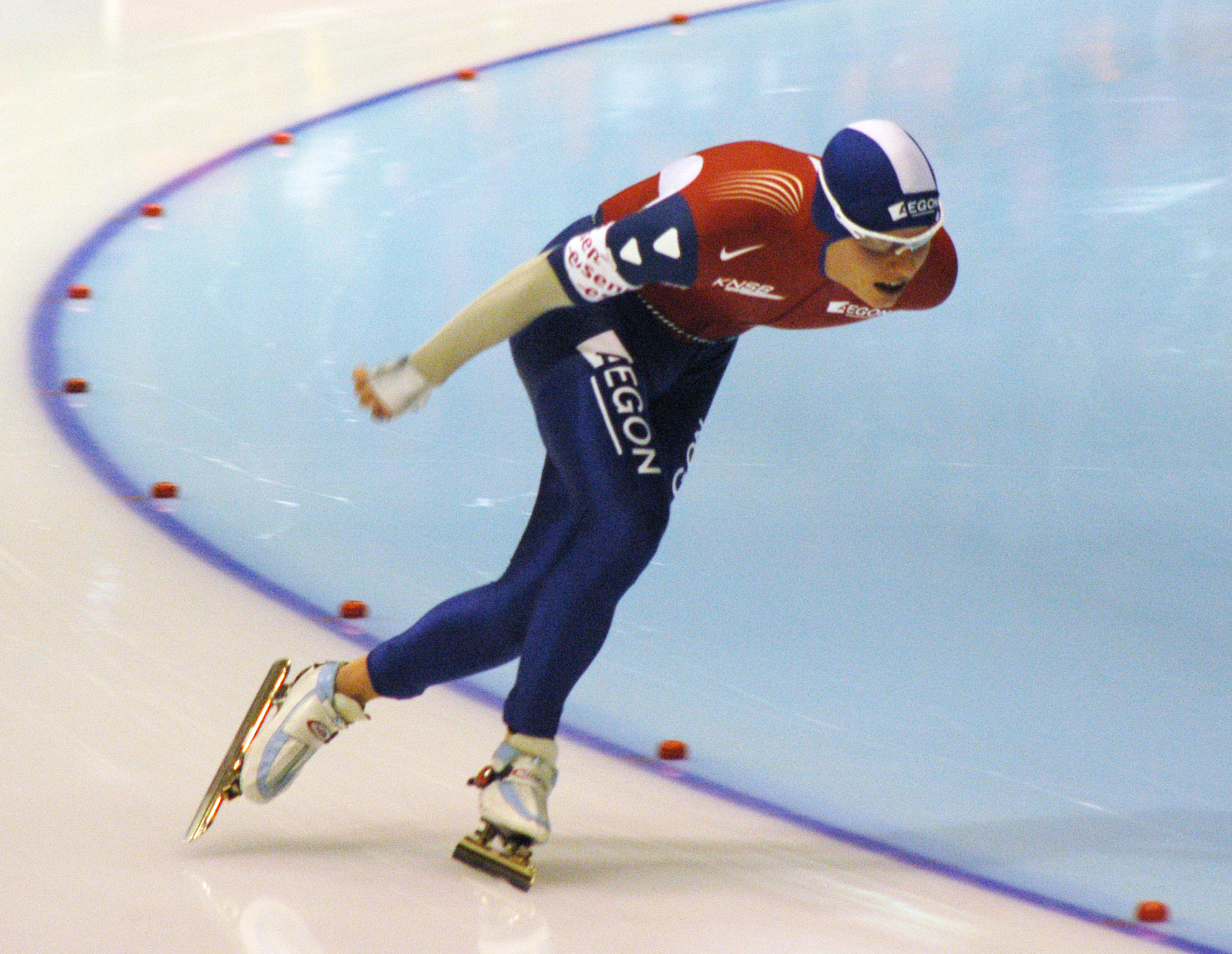 Koen Verweij (NED) during the 10,000 meters at the 2009 European Allround Speed Skating Championship at Heerenveen, the Netherlands.